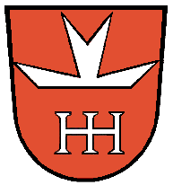 Old Coat of arms of Heitersheim